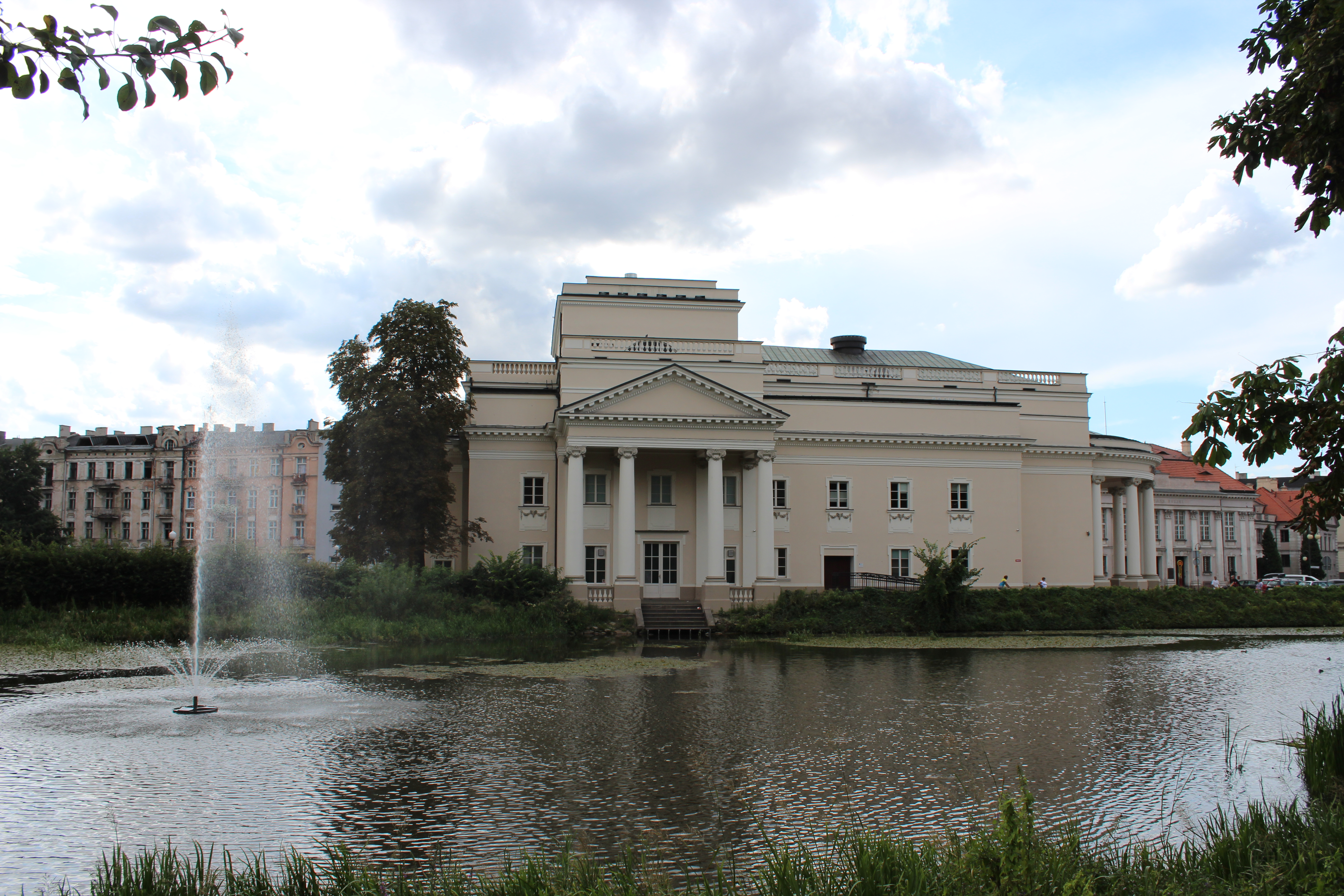 Bogusławski Theatre in Kalisz